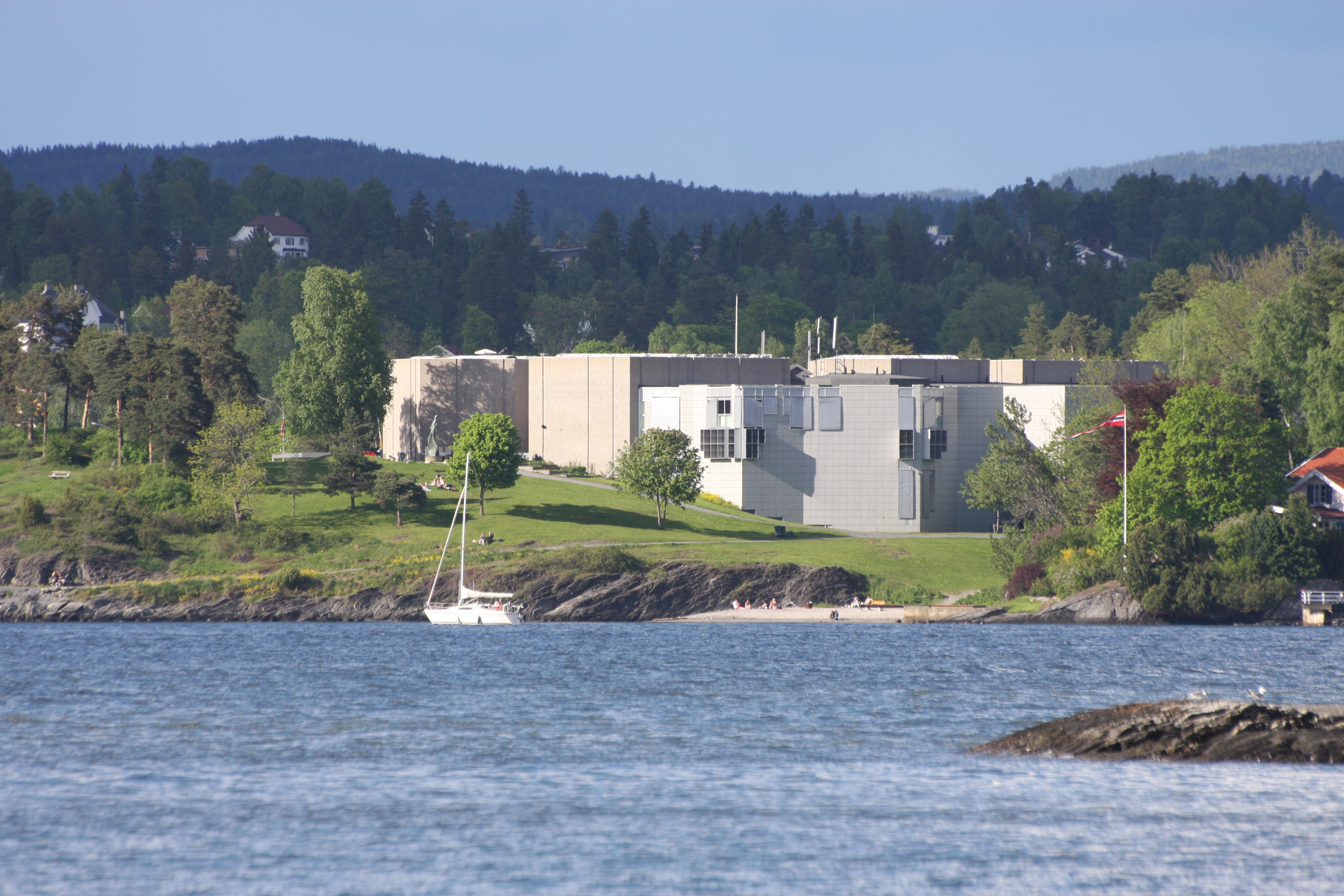 Henie Onstad Art Centre, near Oslo.